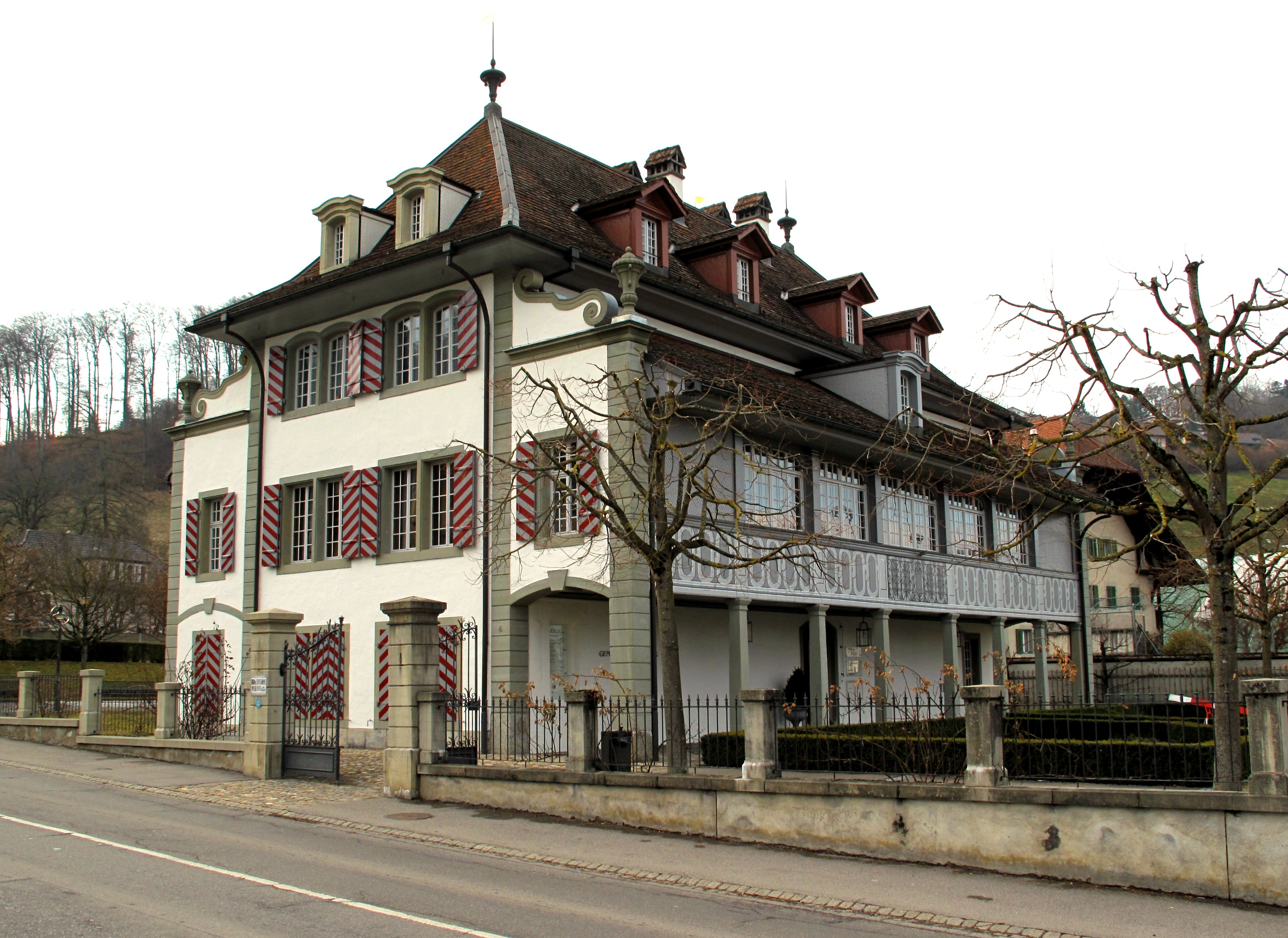 Campagne Blumenhof, Kehrsatz.